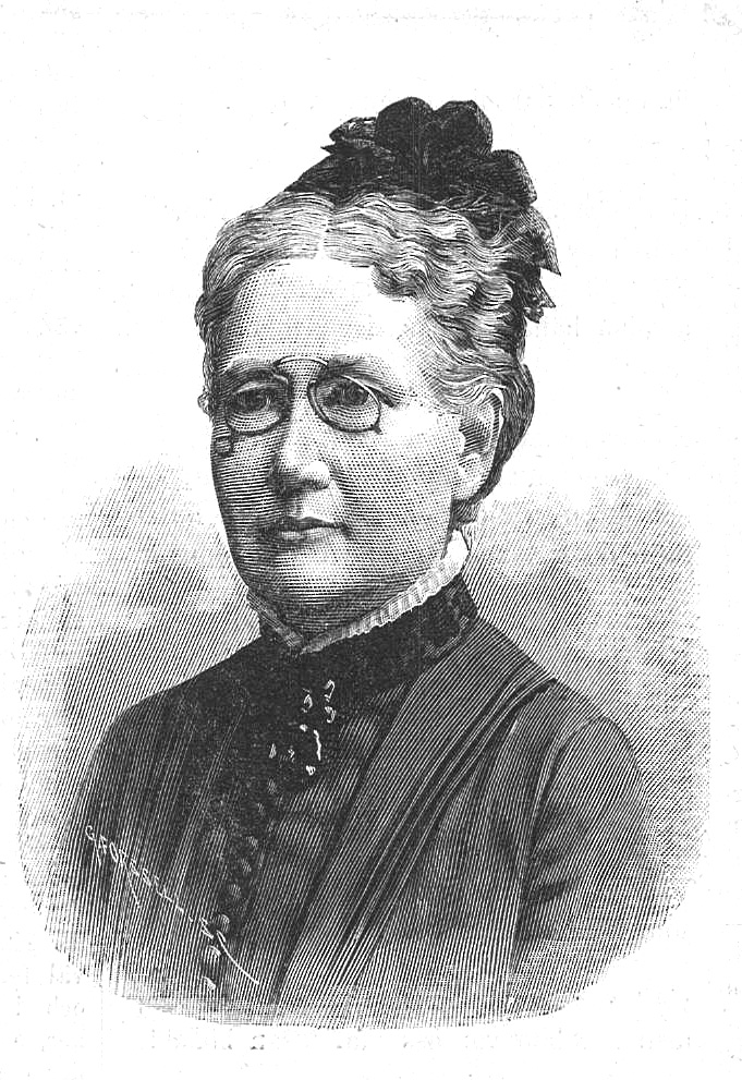 Swedish newspaper editor and journalist Louise Flodin (1828-1923)